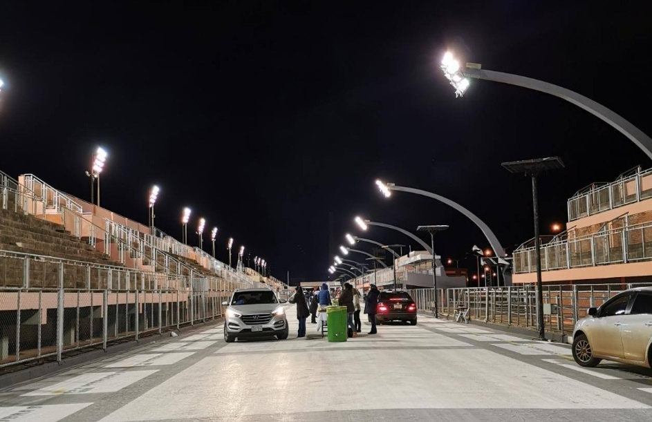 Sambadrome of Encarnación, Paraguay